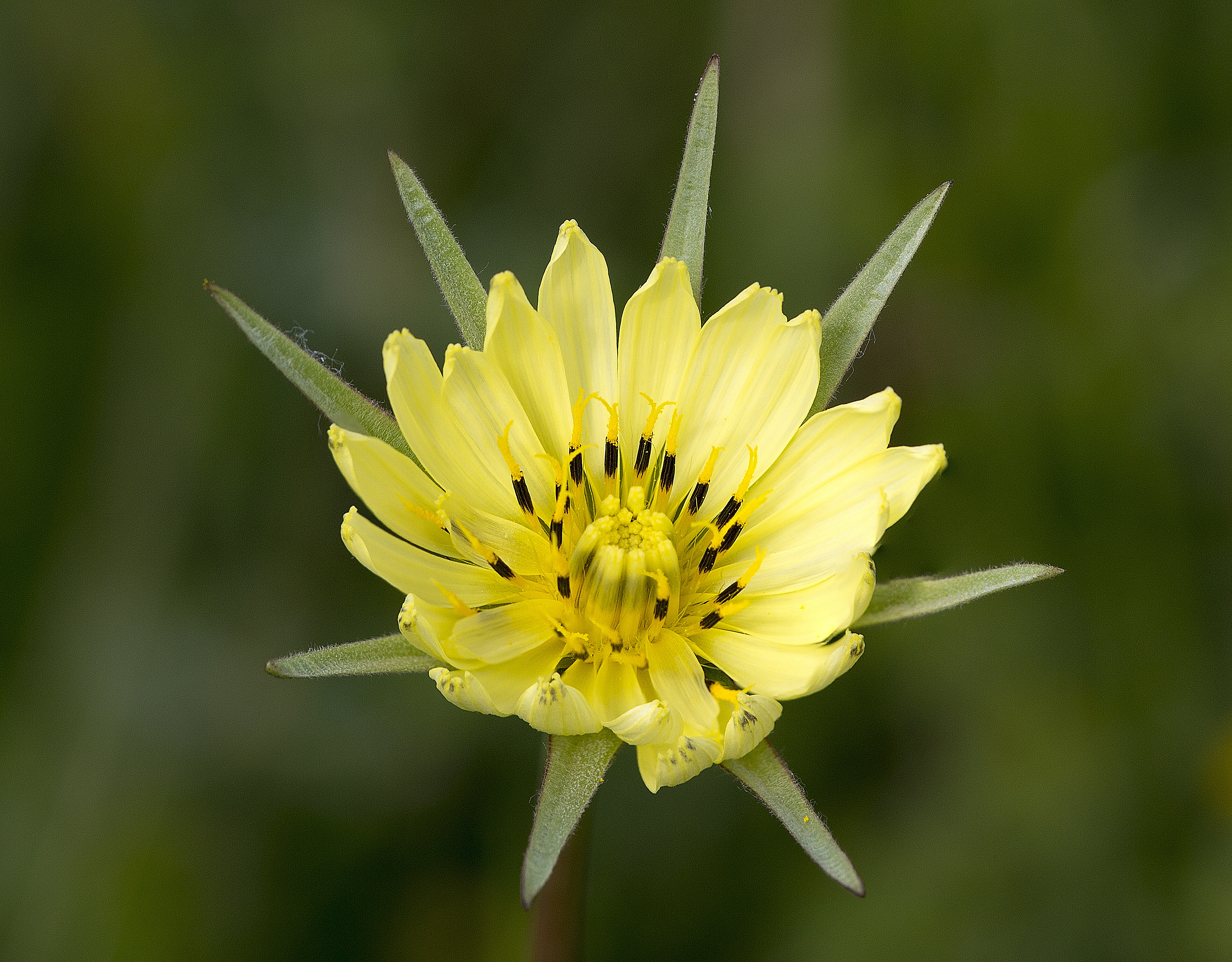 meadow salsify